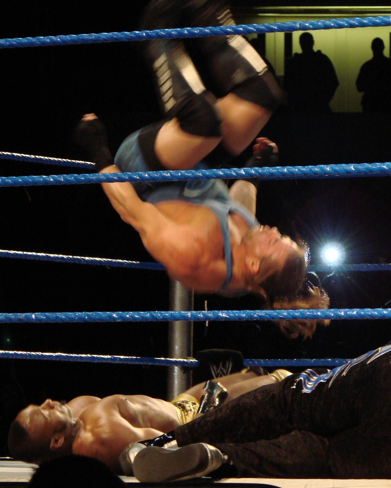 RVD hitting the Rolling Thunder on Marcus Cor Von. February 4en:2007 Champaign, IL.